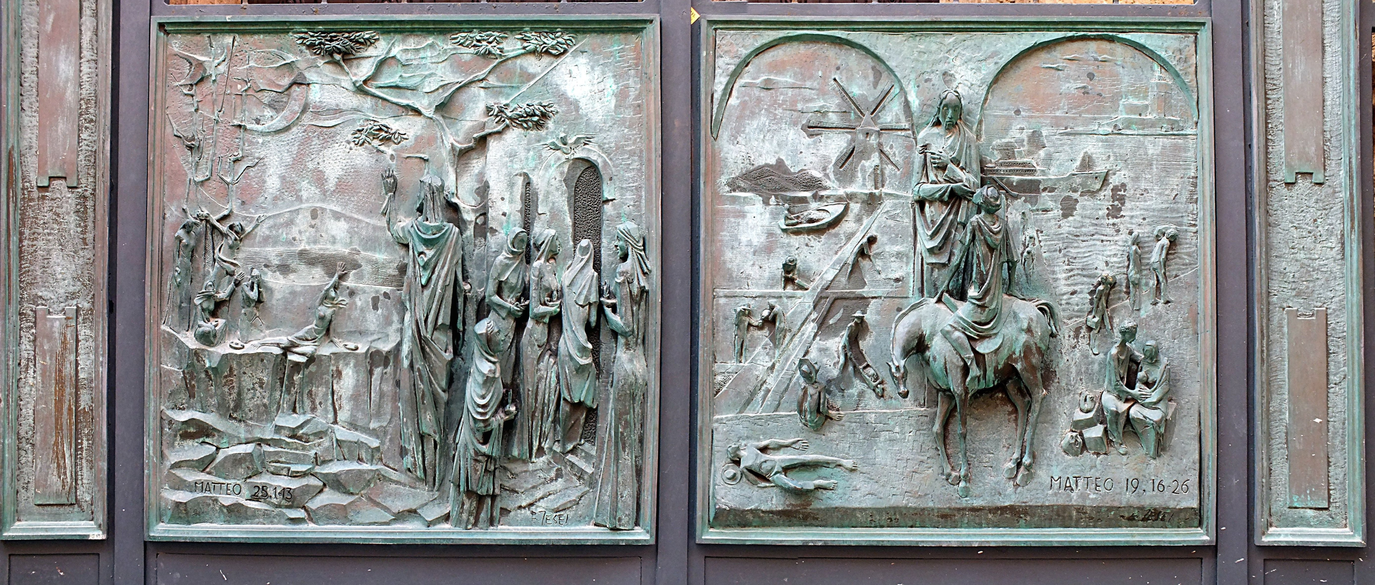 Trapani, Italien: Kathedrale San Lorenzo